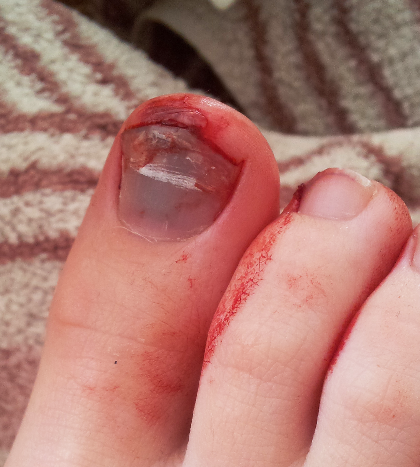 Fresh subungual haematoma